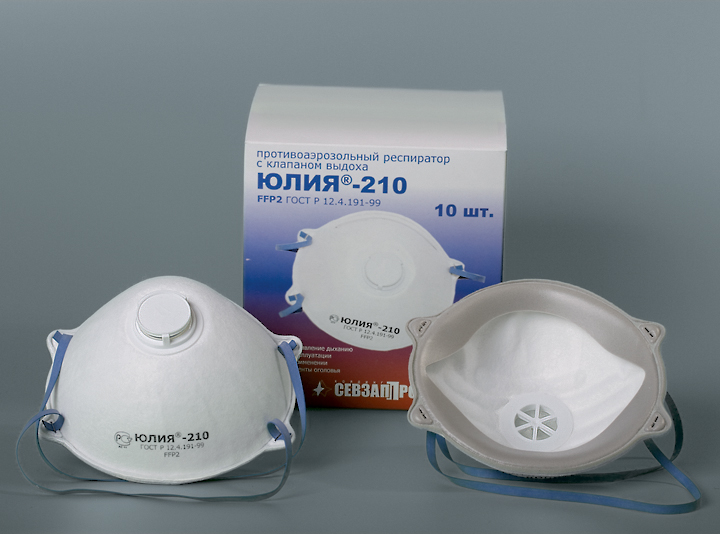 FFP2 masks. Translation of the Russian description: "Molded half mask with exhalation valve". The brand is Julija, type number 210.